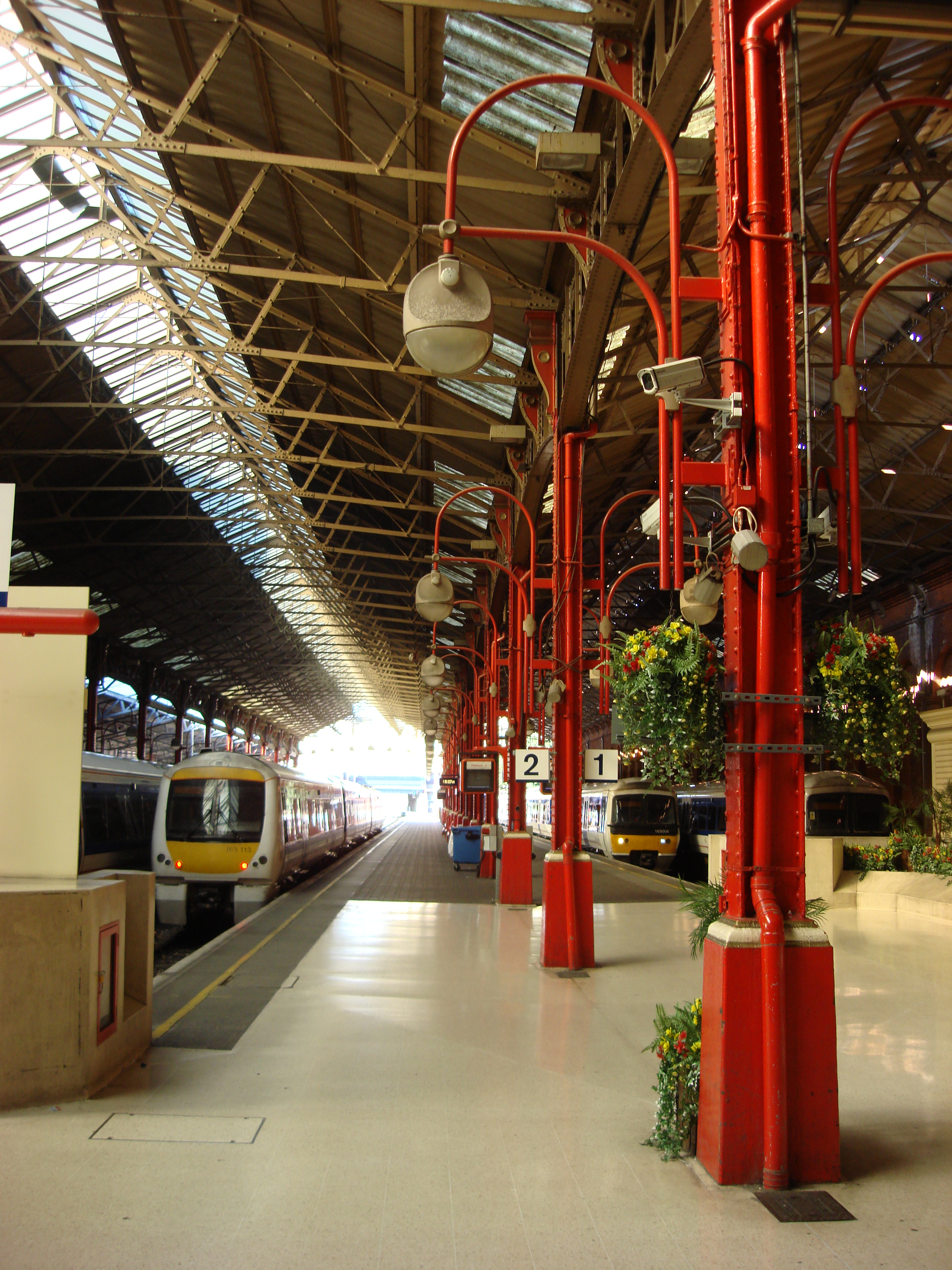 Marylebone station, City of Westminster